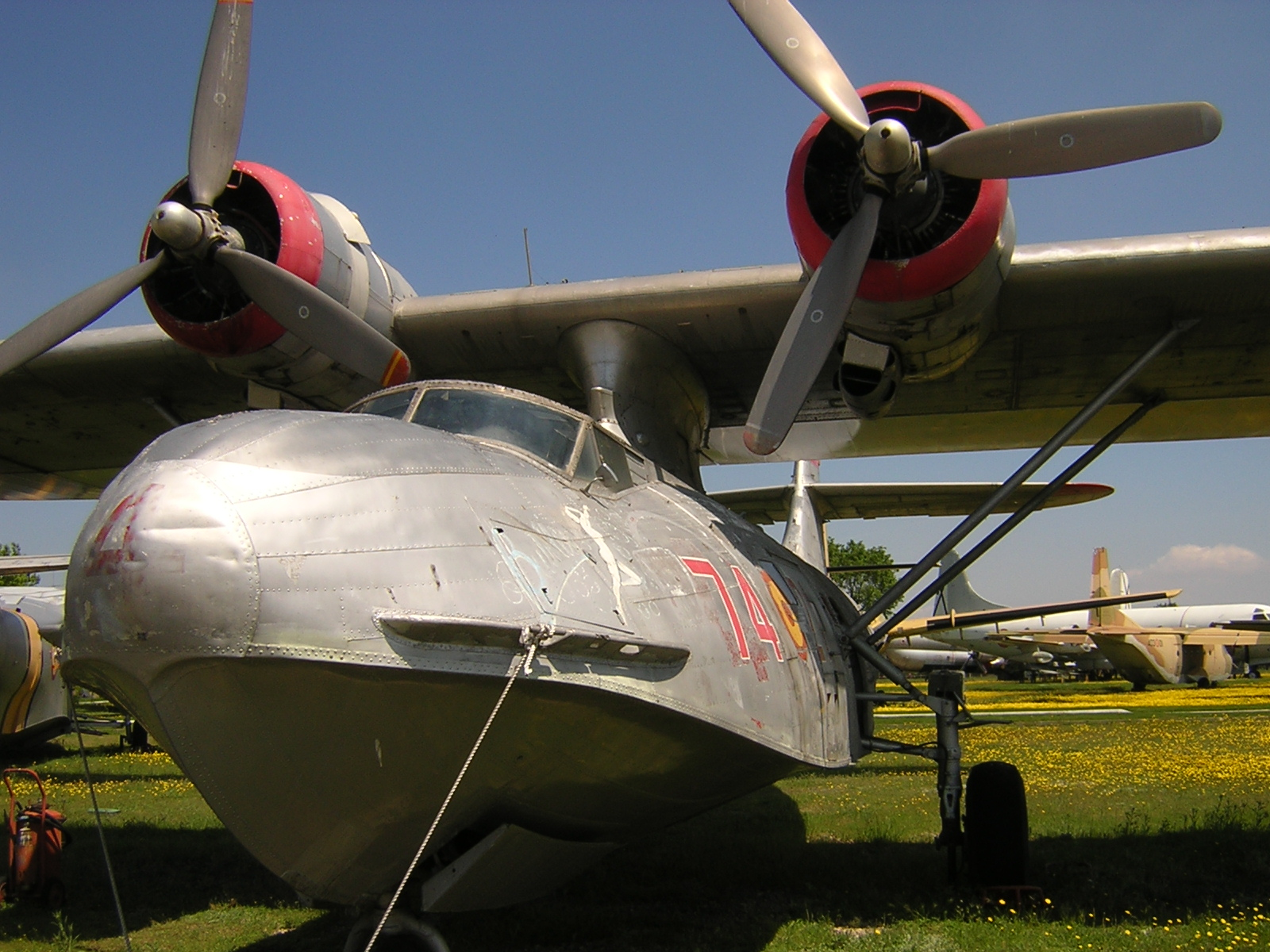 Dornier Do 24 Air Spanish Force / S.A.R. squadron